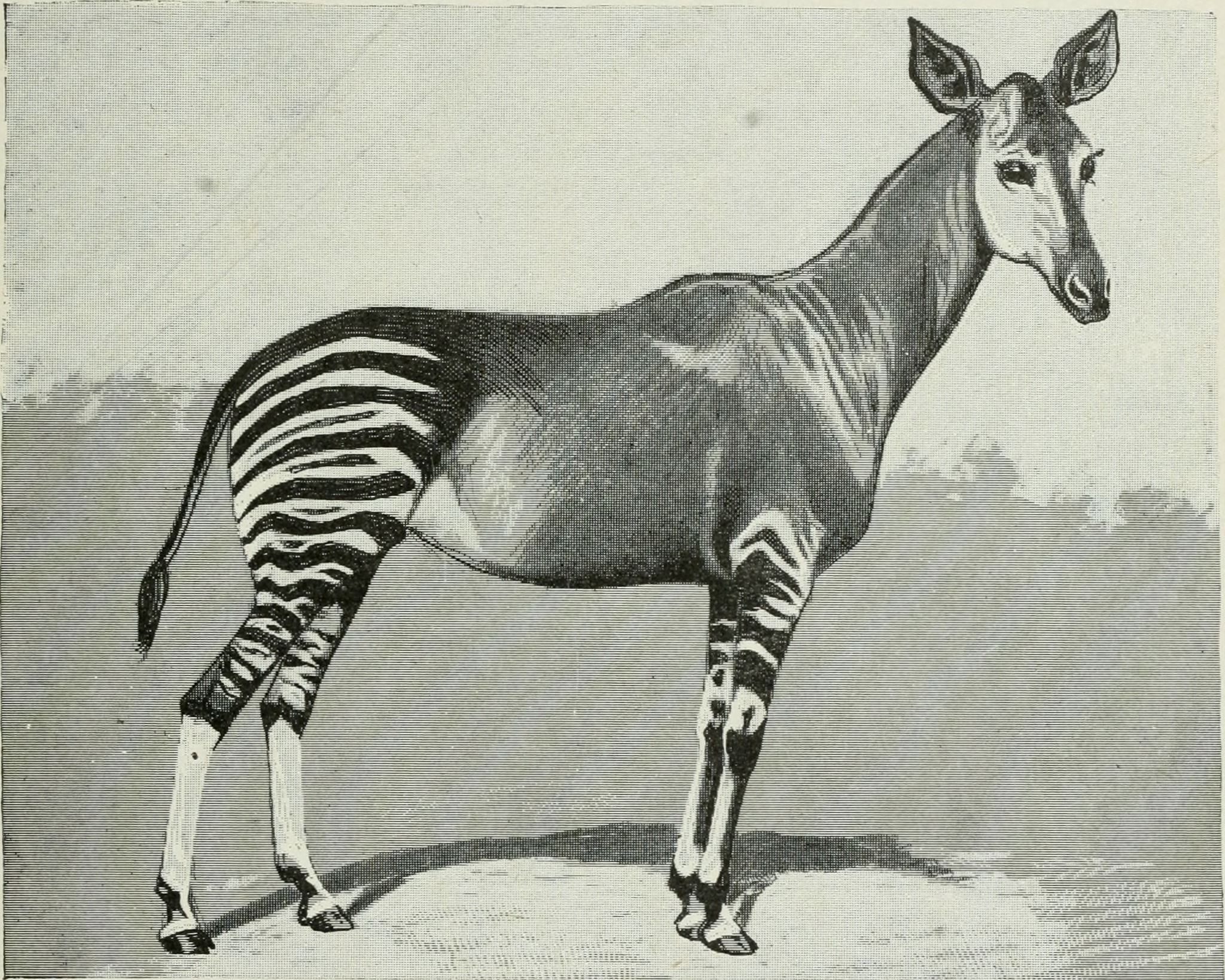 Title: Big game hunting in Africa and other lands; the appearance, habits, traits of character and every detail of wild animal life .. Year: 1910 (1910s) Authors: Lundeberg, Axel; Seymour, Frederick H. A Subjects: Hunting -- Africa; Animal behavior Publisher: (Chicago, D. B. McCurdy Text Appearing Before Image: THE STORY OF THE WAPL 217 man promised to do all in his power to obtain a specimen or specimens of the okapi for Sir Harry from the natives of his district. Some months later, when Sir Harry Johnston had returned to the more civilized portion of the Uganda protectorate, he received by messengers from Mr. Ericsson a complete skin, including the hoofs, and two skulls of the okapi. One of the most remarkable facts in this story is that Sir Harry, with- Text Appearing After Image: THE WAPI OR OKAPI. out access to books and specimens for comparison, such as men of science have at their command in European museums, immediately determined with complete accuracy the nature of the okapi. He made—and has re- cently published—a sketch of the animal, showing it as he supposed, from the examination of skin and skull, it would have appeared when living. Its cloven hoofs showed that it was not of the zebra tribe, but related to